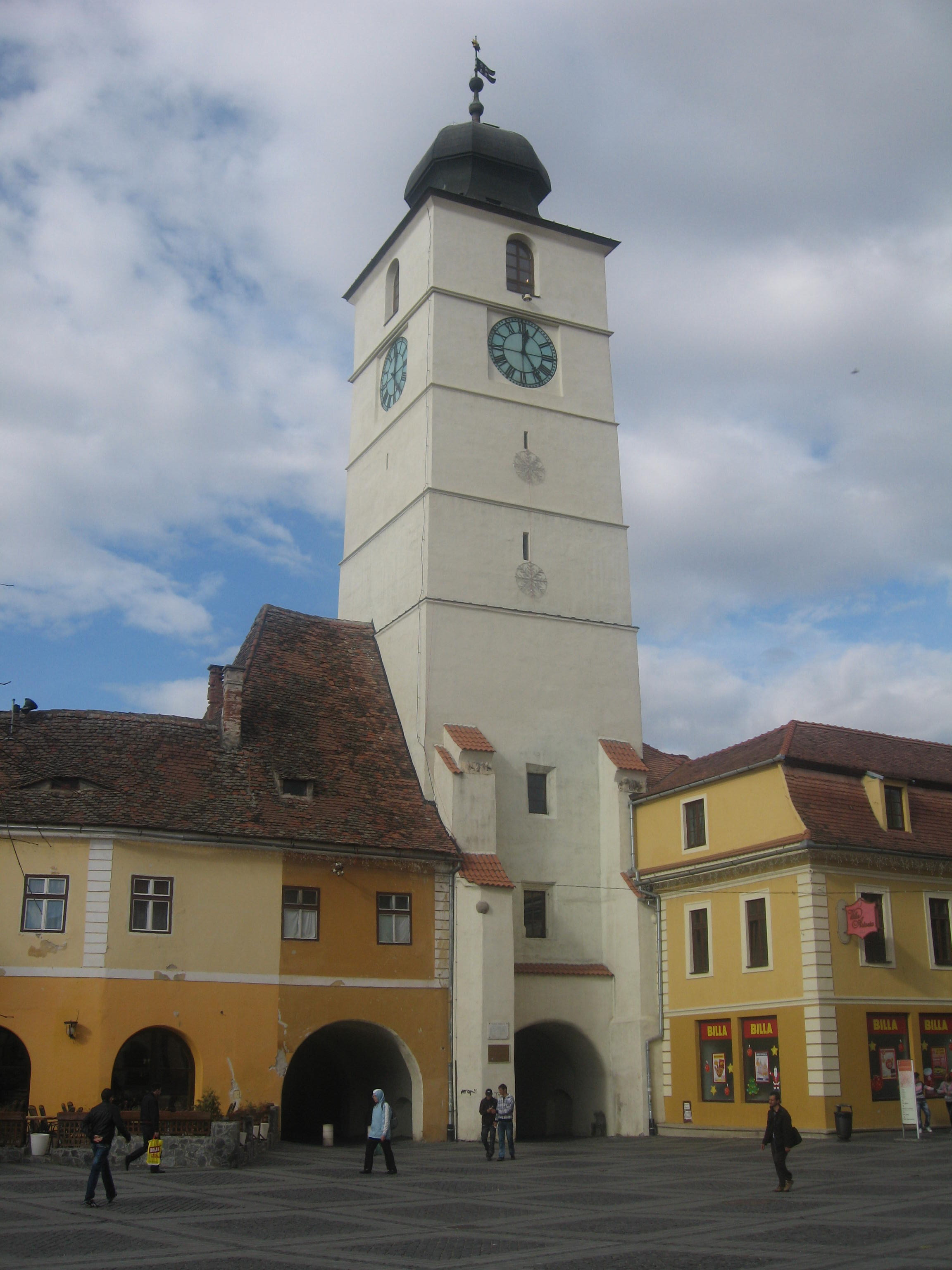 Turnul Sfatului in Sibiu, Romania